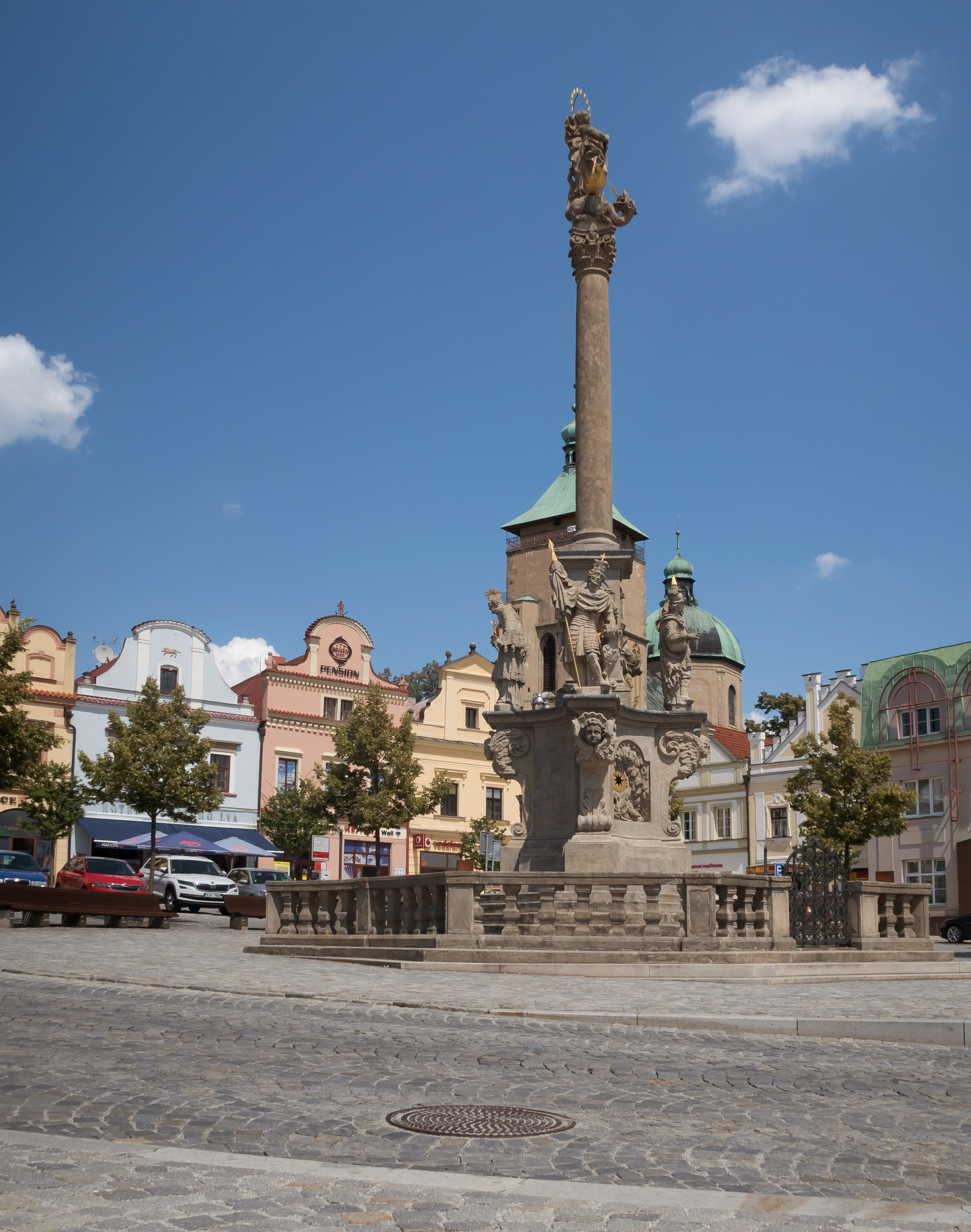 Havlíčkův Brod, sculpture: Mariánský sloup at the Havlíčkovo náměstí